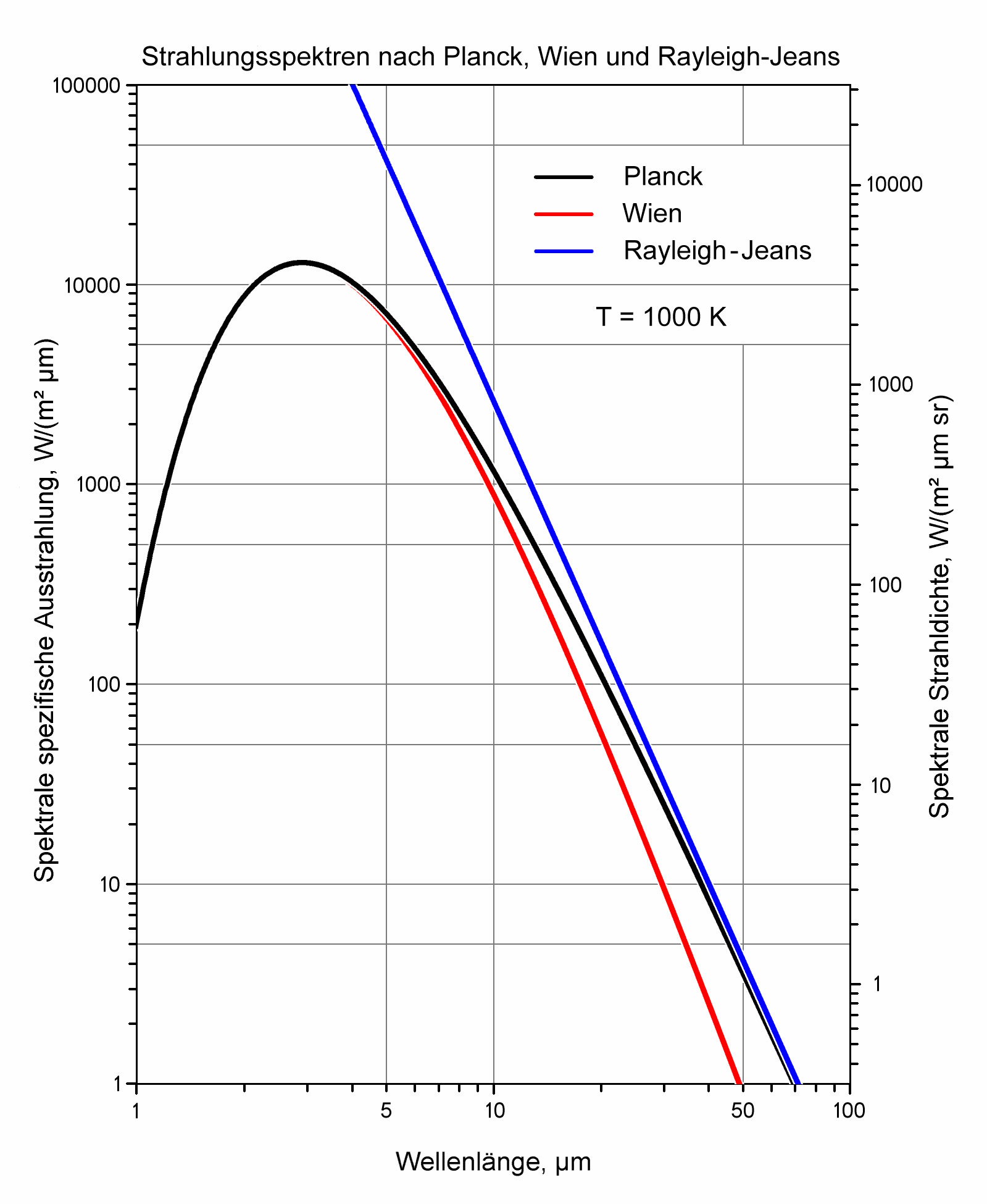 Comparison of the radiation laws formulated by Planck (black), Wien (red) and Rayleigh-Jeans (blue).